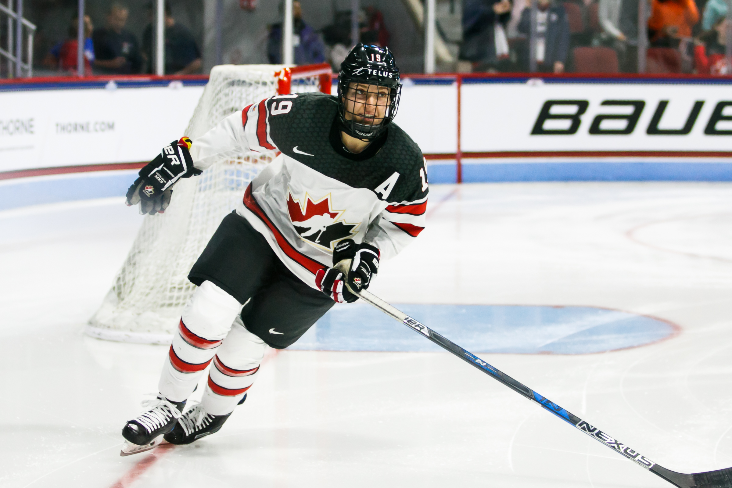 Brianne Jenner playing for Team Canada in 2017